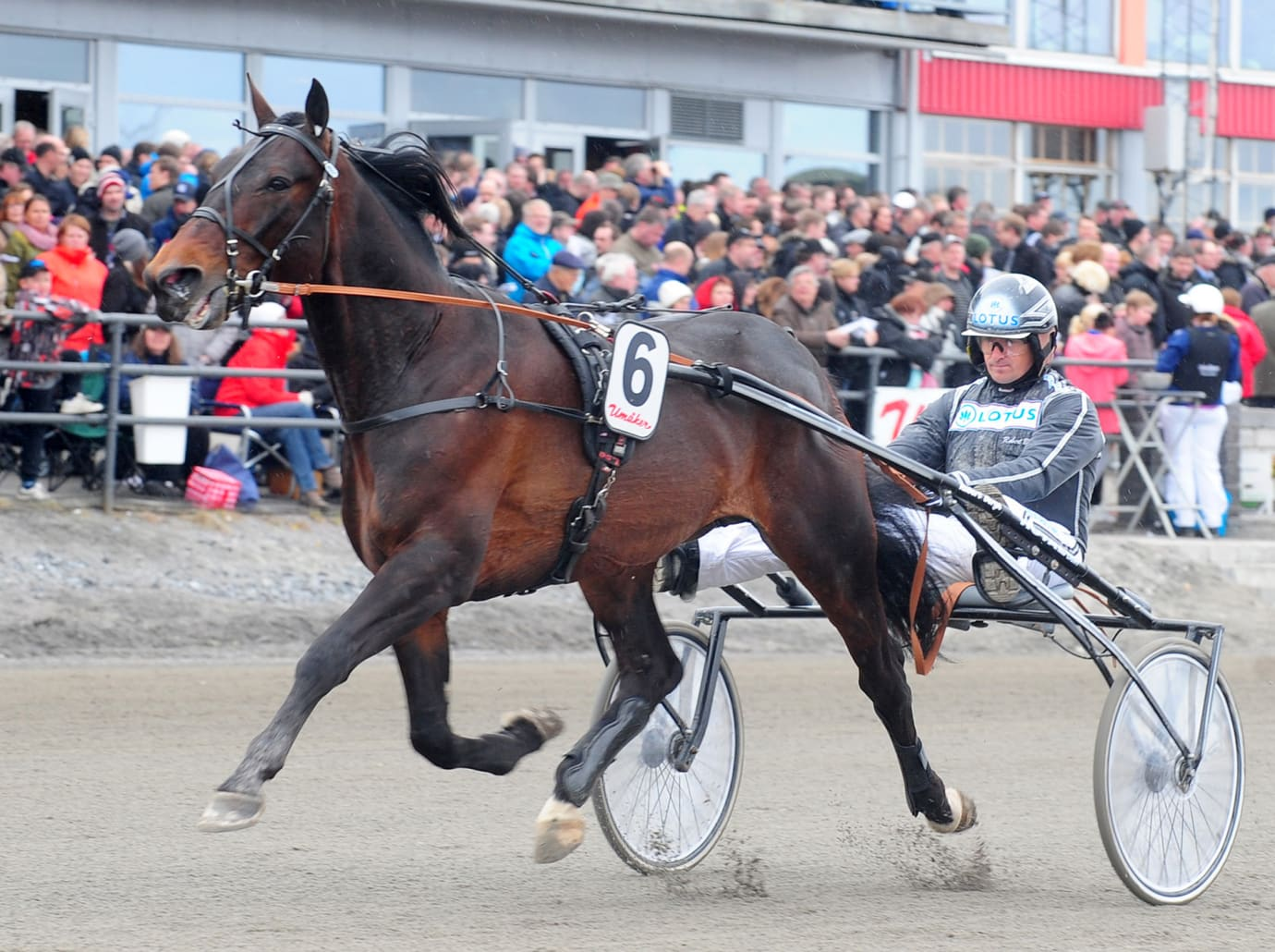 Driver Robert Bergh and trotter Kadett C.D. 2015.